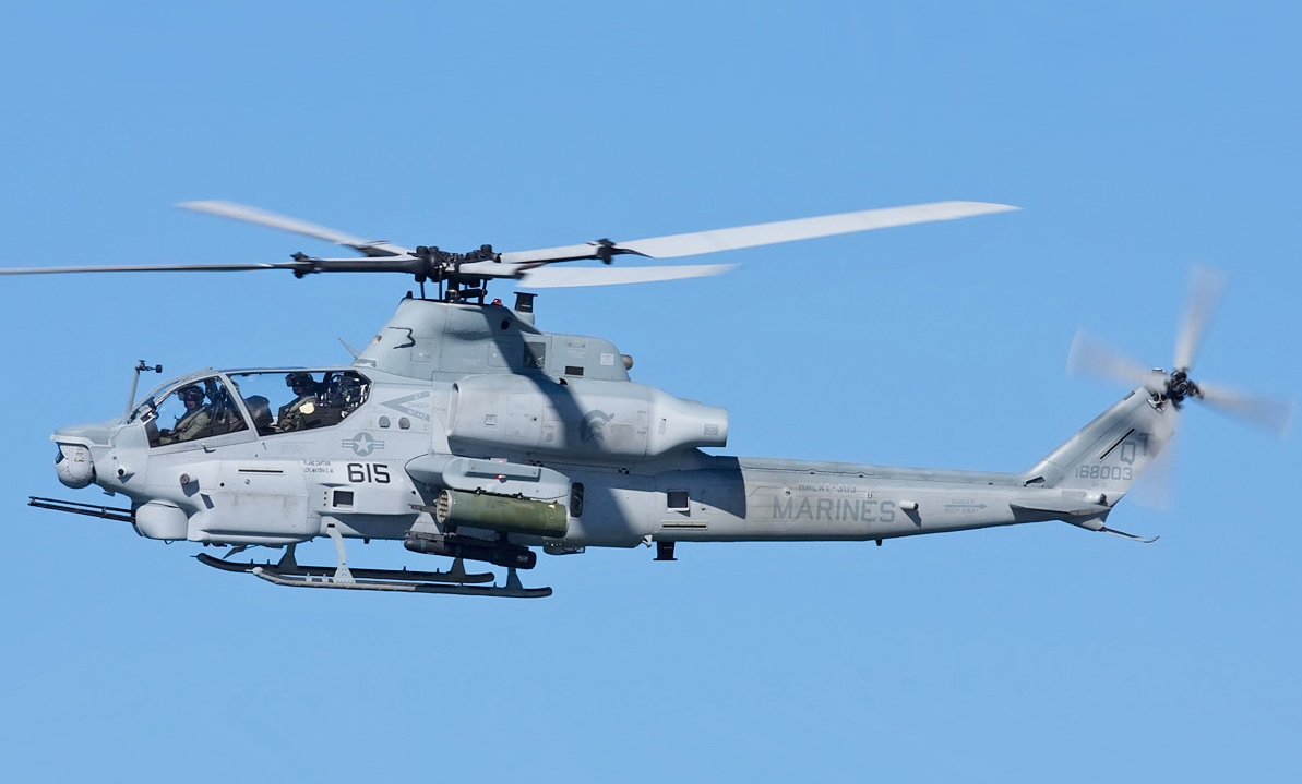 Bell USMC AH-1 Viper